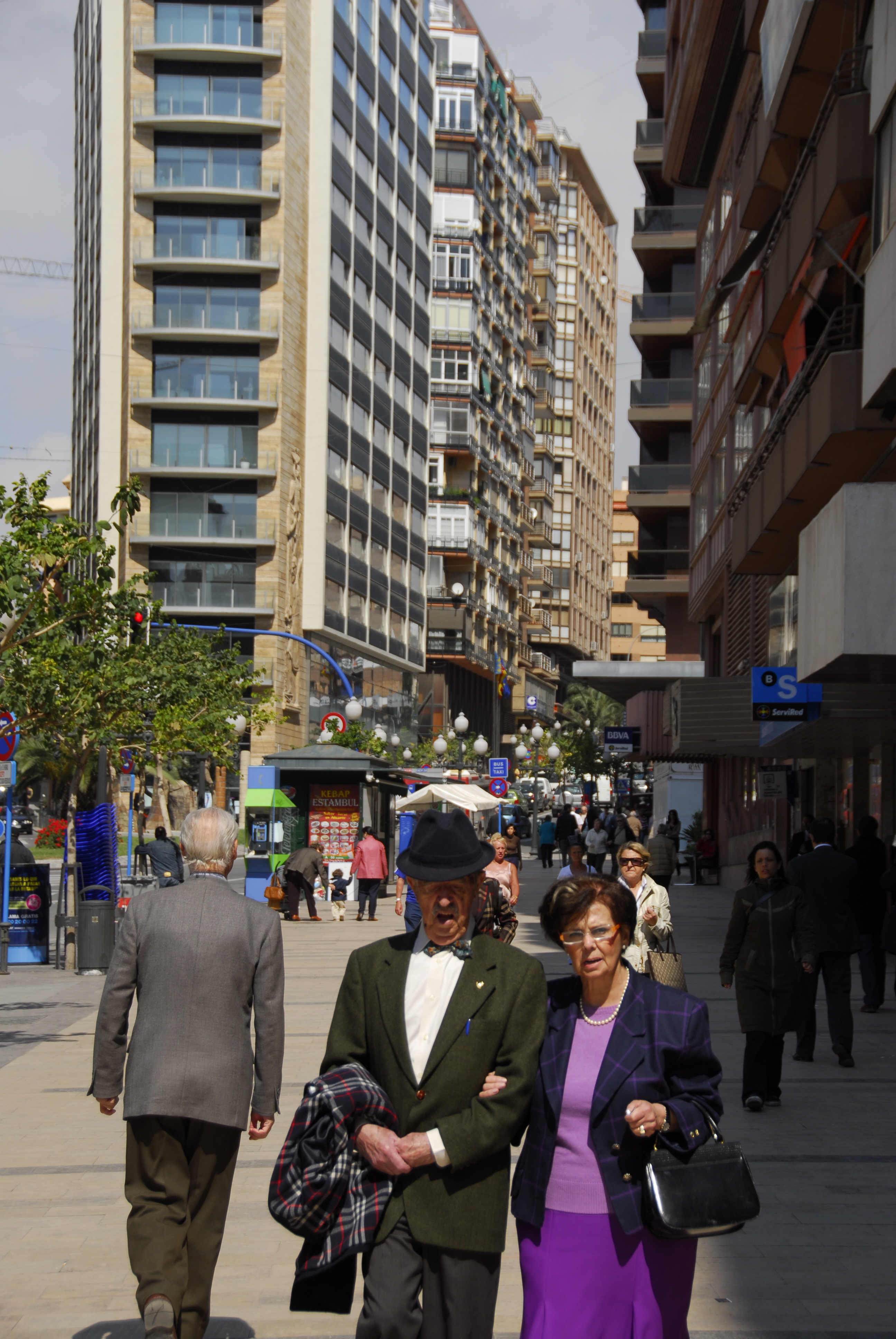 Smart and proud